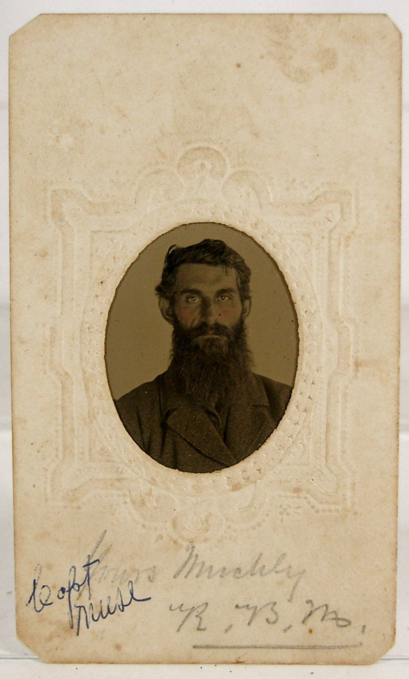 Tintype Photograph in CDV size embossed paper mount of Confederate Civil War Infantry Captain Robert Bruce Muse (1837-1915), 33rd Virginia Infantry